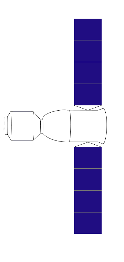 Drawing of the Shenzhou spacecapsule. complete with orbit module, reentry capsule, service module; orbit module solar panels not deployed